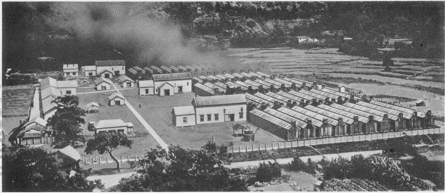 Kinsui carbon black plant中文（台灣）: 苗栗錦水的碳黑工廠